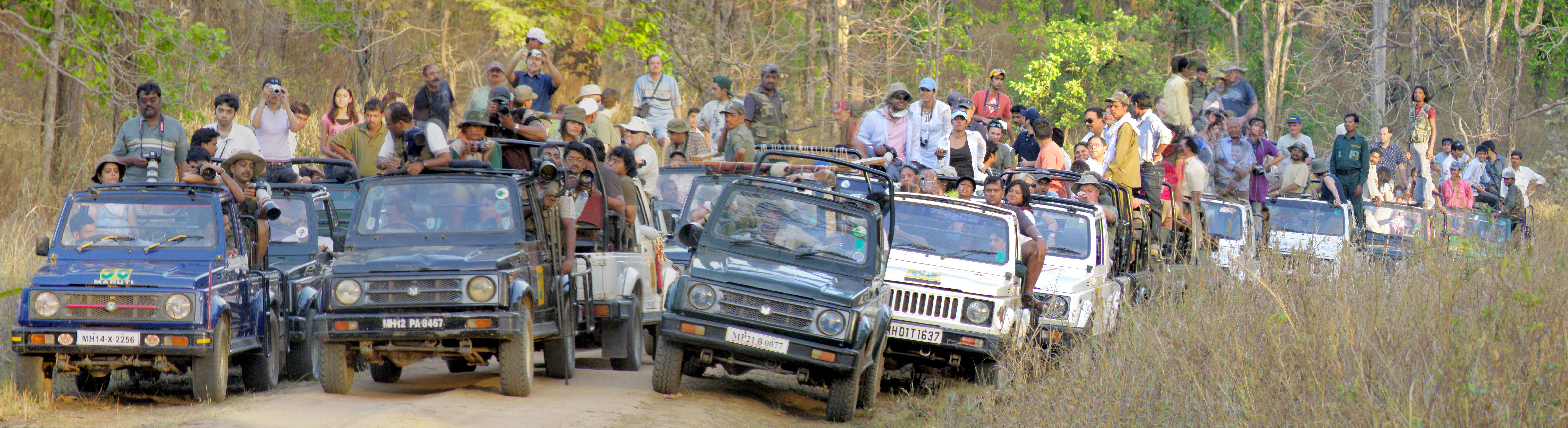 Forty vehicles, two hundred people, on either side of a single tiger ! - Kanha National Park - Madhya Pradesh - India